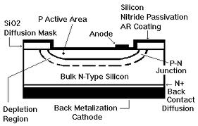 Structure photodiode